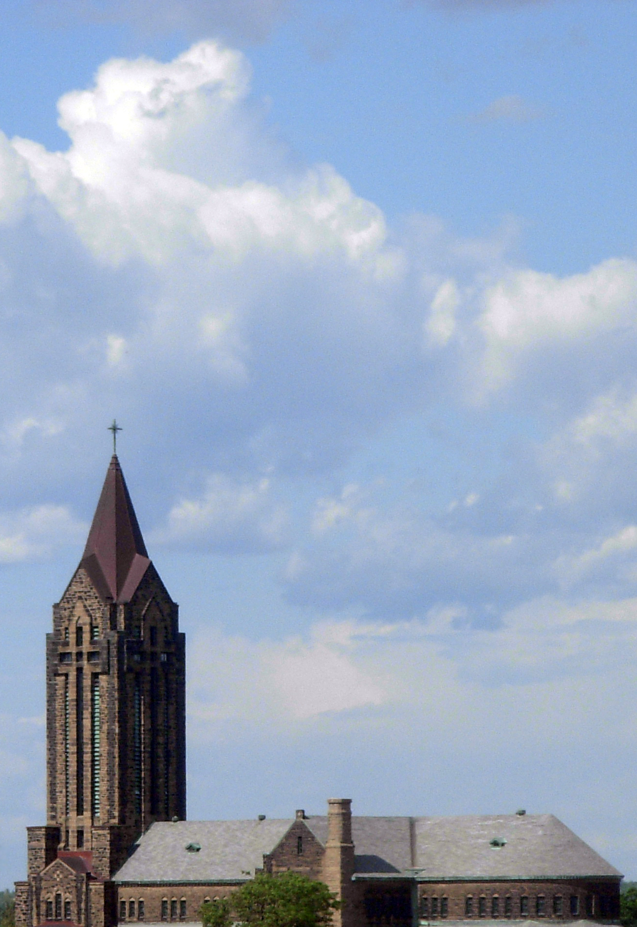 I Stu_pendousmat took this picture in the summer of 2007